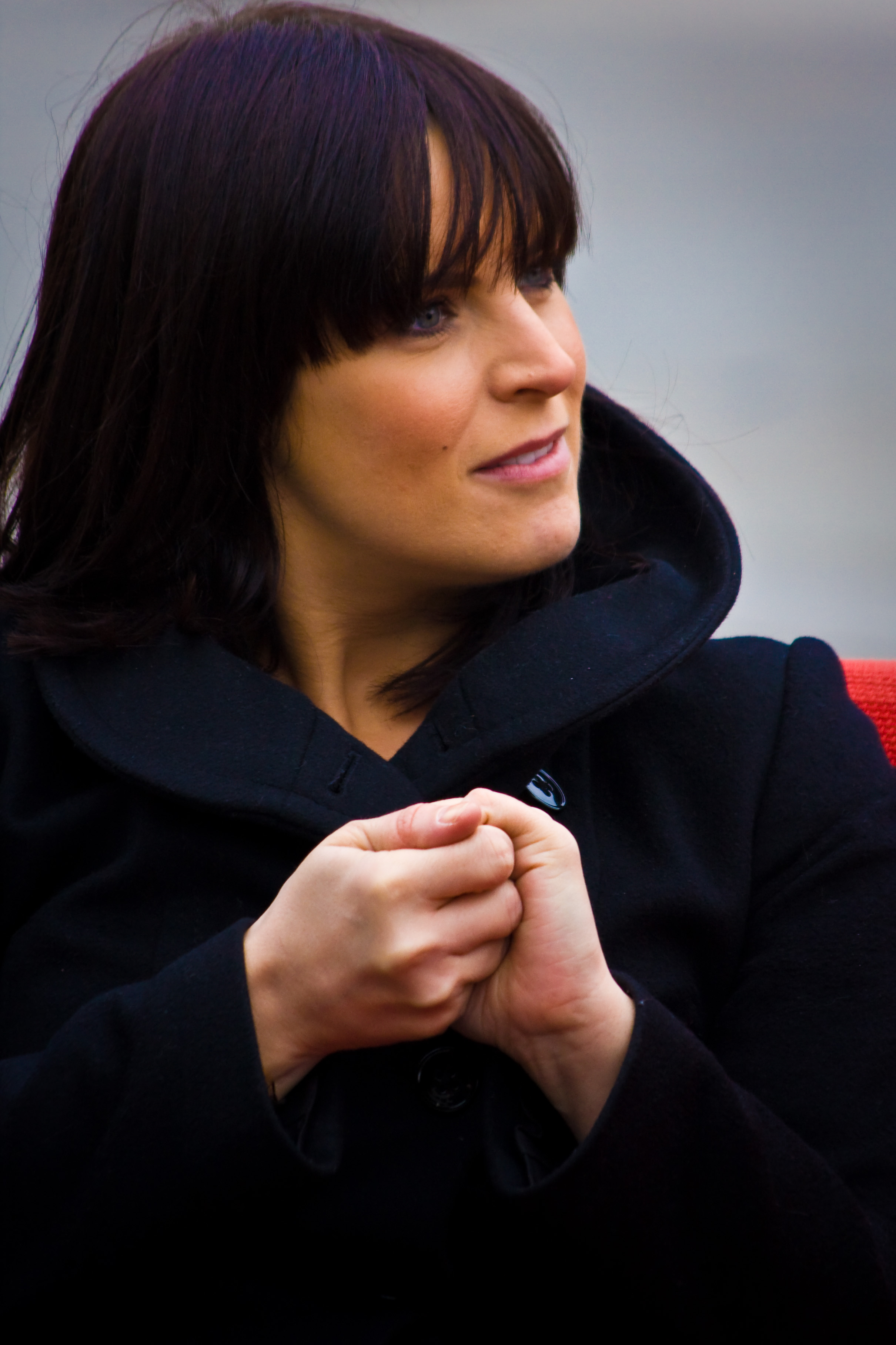 TV producer, presenter and journalist Anna Richardson interviewing on Trafalgar Square.